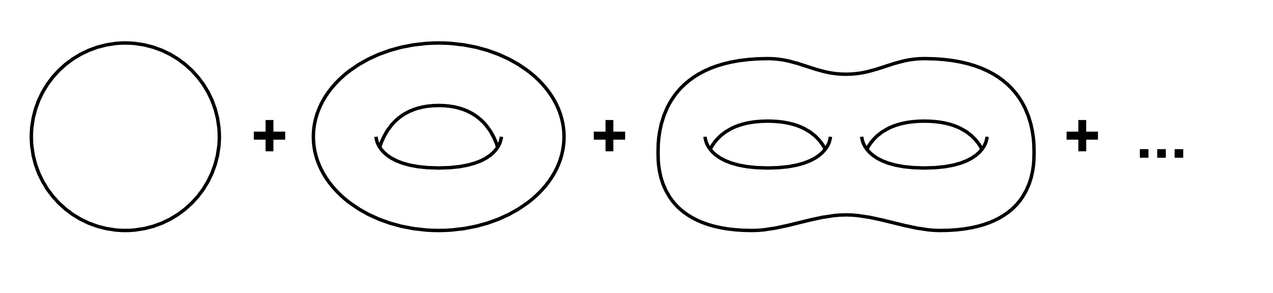 A sum over possible topologies of an orientable compact 2-manifold, indexed by genus. It is understood that this expression means summing contributions to an object, such as a partition function, that is expressed as a path-integral over possible geometries.